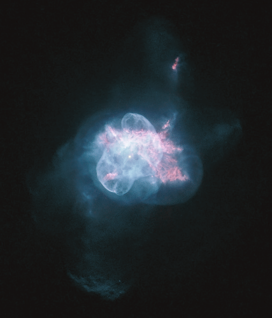 Looking at this one, I get the impression that perhaps we aren't seeing its best side. It's always hard to get a sense for what's in front and what's in back but this one is especially difficult. At first it seems random and asymmetrical but running vertically through the image is a curve which looks a lot like a graph of the cube of x. The outer portions are a tad grainy and blurry because they are WF data while the inner section came from the PC chip so it's nice and smooth. Red: hst_08773_05_wfpc2_f658n_pc_sci Green: hst_08773_05_wfpc2_f555w_pc_sci + hst_06792_01_wfpc2_f502n_wf_sci Blue: hst_06792_01_wfpc2_f502n_wf_sci + hst_08773_05_wfpc2_f502n_pc_sci North is up.